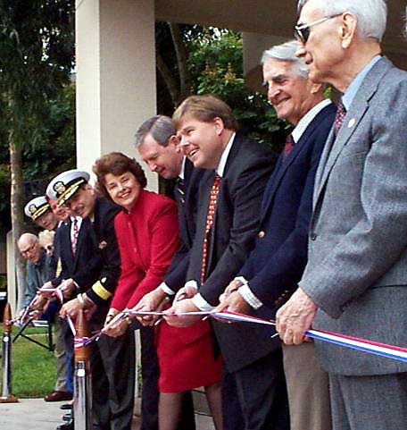 Senator Dianne Feinstein helps "Get Underway" with TRICARE Senior Prime Pilot Program. (Pictured: retired Lt. Cmdr. and Mrs. Warren Jones, the first enrollees; Capt. Jim Lees, director, Naval Medical Center San Diego Internal Medicine Clinic; Rear Adm. Alberto Diaz, lead agent TRICARE Southern California, Region Nine and commander, Naval Medical Center San Diego, Rep. Bob Filner, D-Calif.; Dr. H. James T. Sears, executive director, TRICARE Management Activity; Mr. Jim Woys, chief operating officer, Foundation Health Federal Services, Inc.; retired Navy Capt. John Howard and Army Reserve Col. Walt Mikulich, "fathers" of Medicare subvention.) Navy Medical Center, San Diego, California